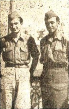 Kiro Gligorov (left) and Nikola Micev (right) at Iland Vis